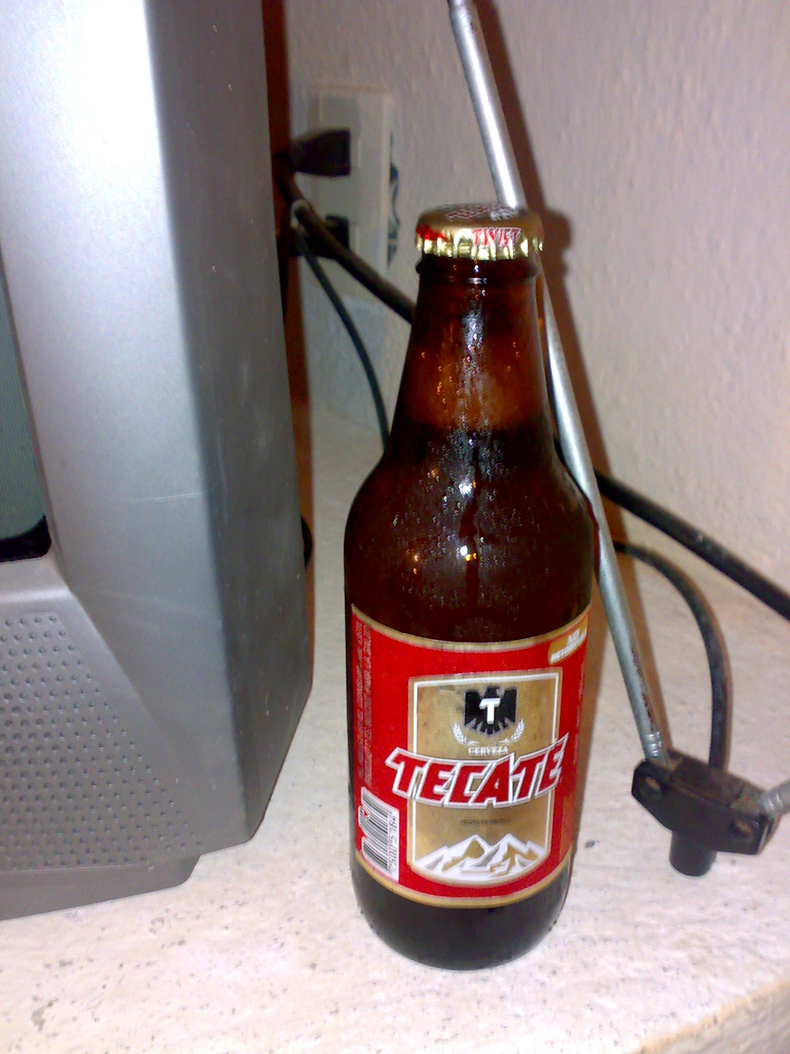 Tecate beer. Picture taken by me.